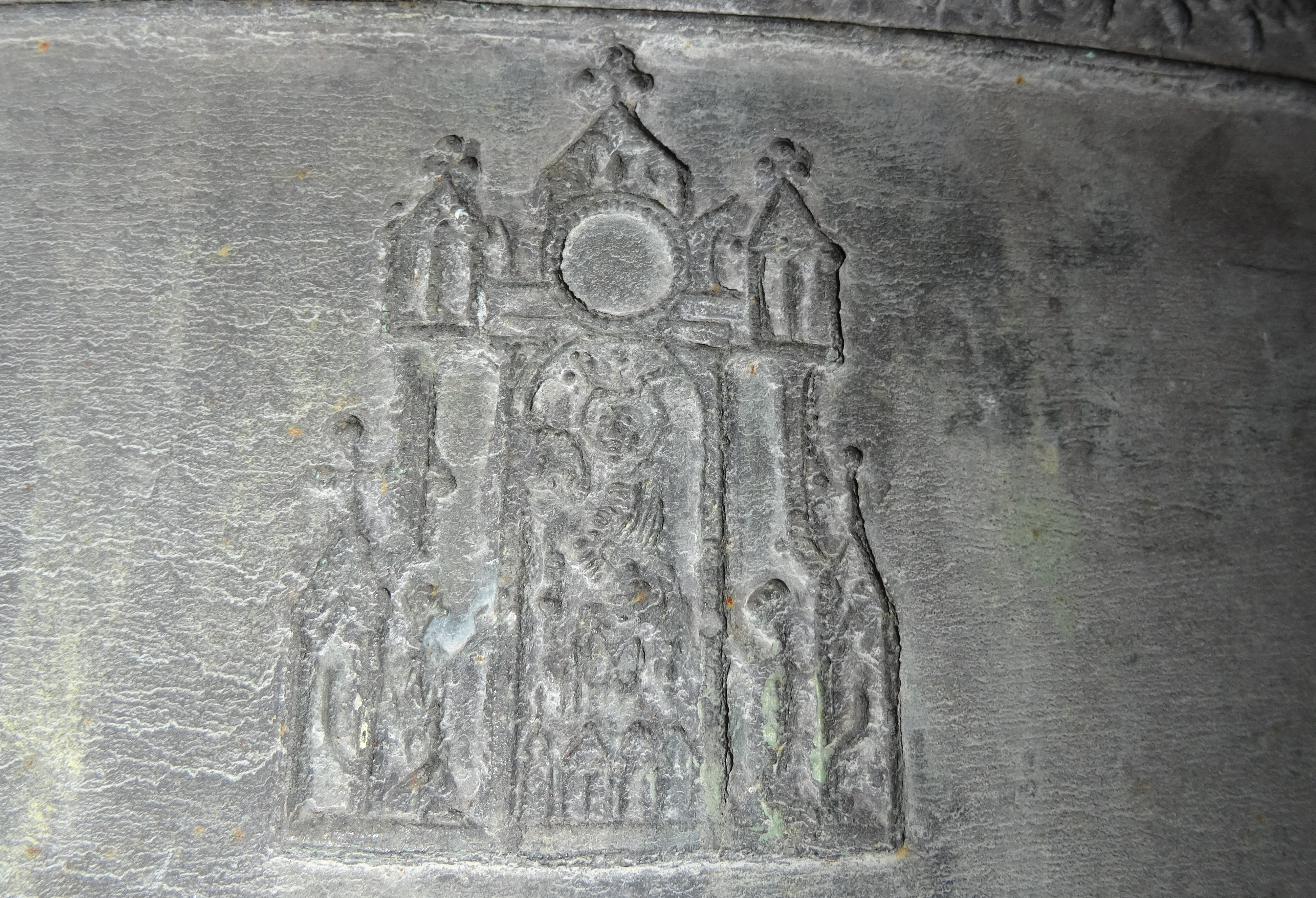 Pilgrim icon on the bell of 1470